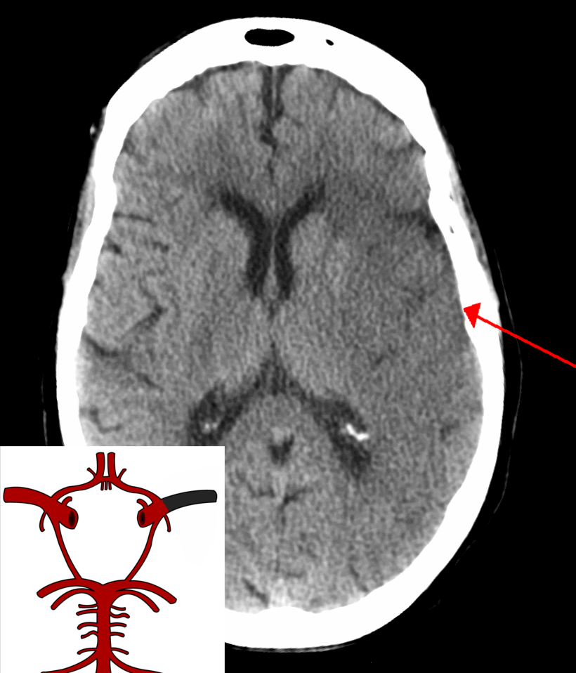 With an overlay showing the artery which has been damaged